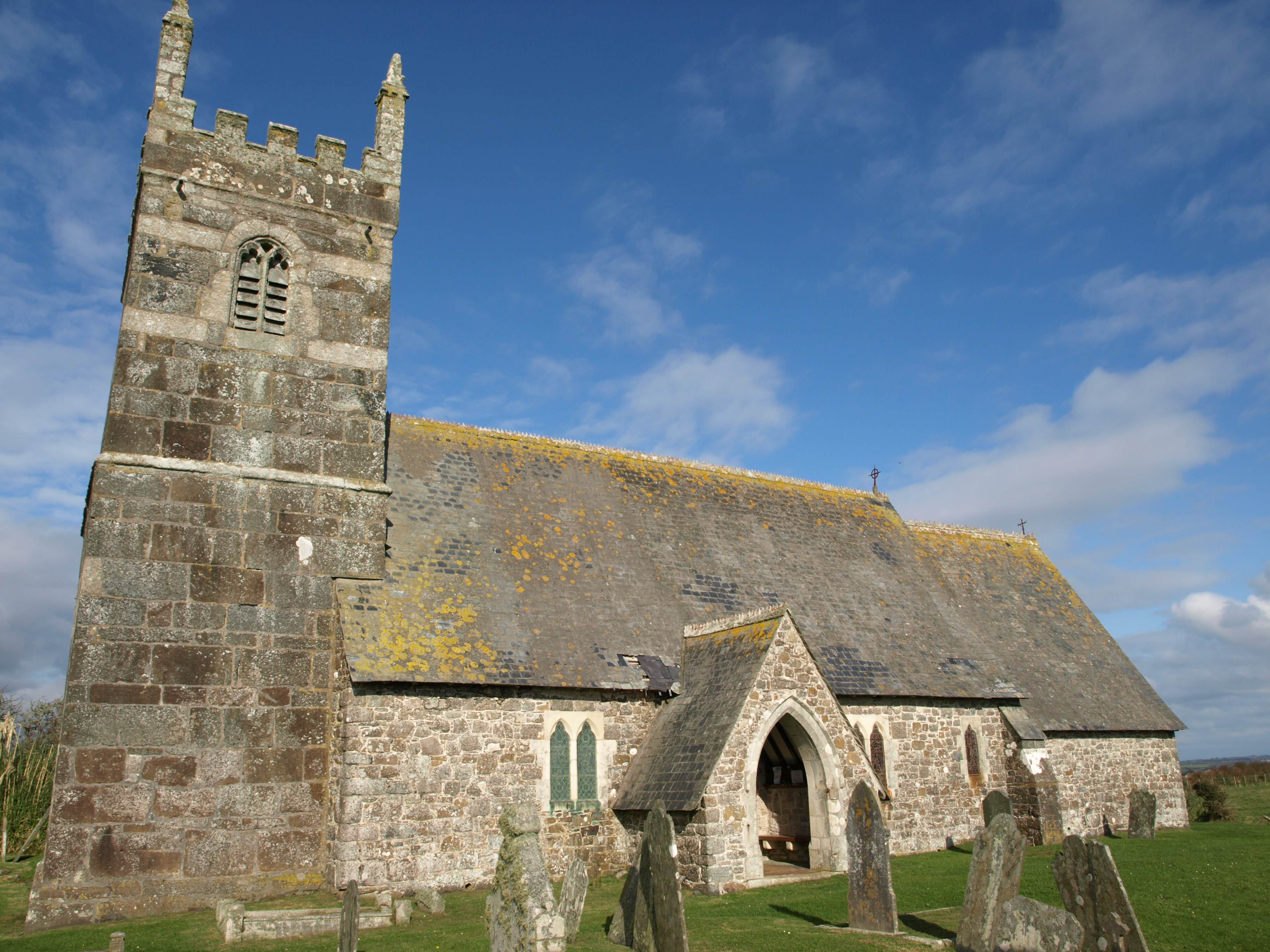 St Grada and Holy Cross Church, Grade